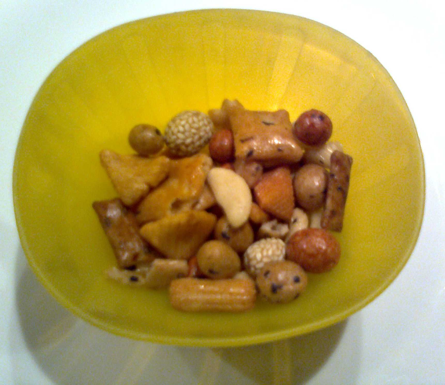 Sembei rice crackers